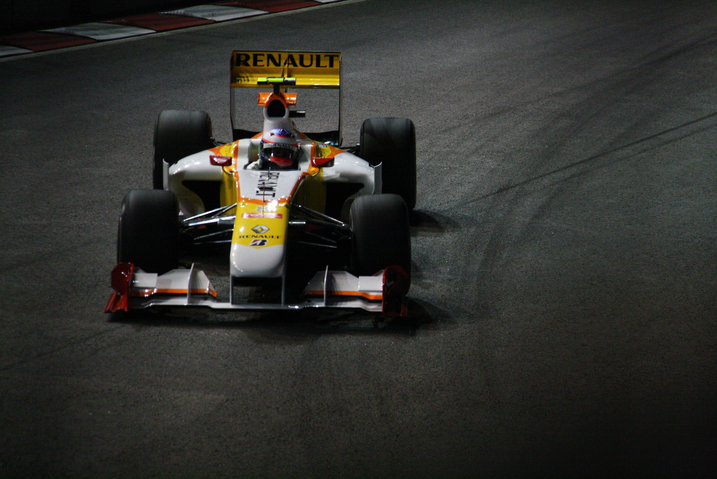 Romain Grosjean driving for Renault F1 at the 2009 Singapore Grand Prix.